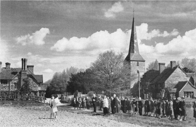 The Ancient Custom of Blessing the Fields on Rogation Sunday at Hever, Kent Taken February 1967